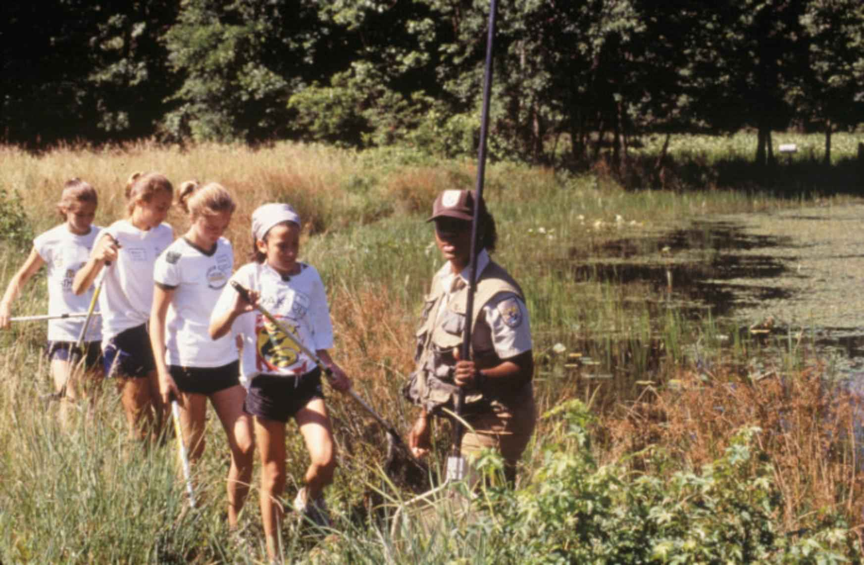 Image title: Girl scouts in frog survey. A FWS biologist walks with a group of Girl Scouts through the Patuxent Research Refuge Image from Public domain images website